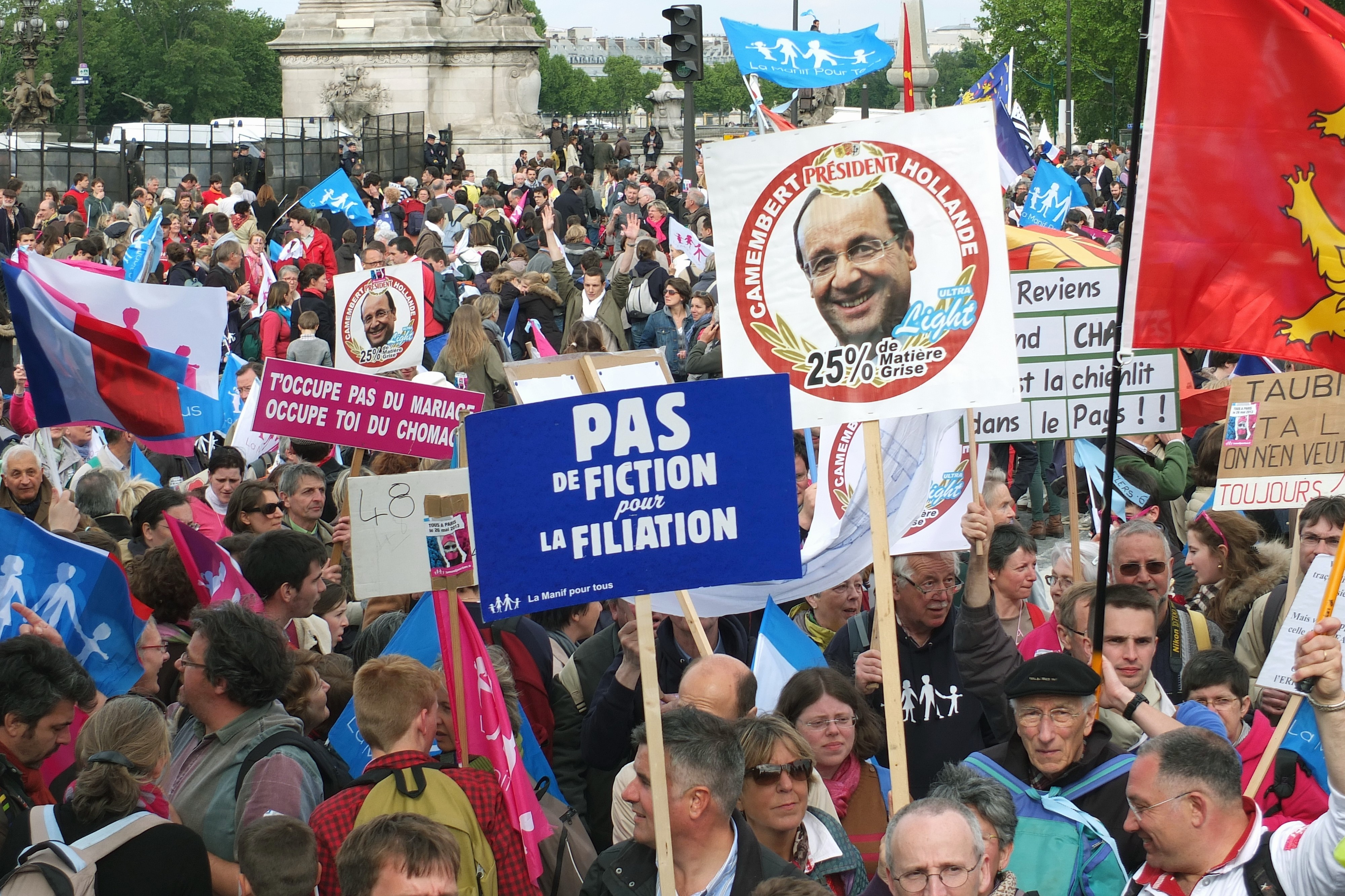 French protestation against Gay marriage and adoption on May 2013